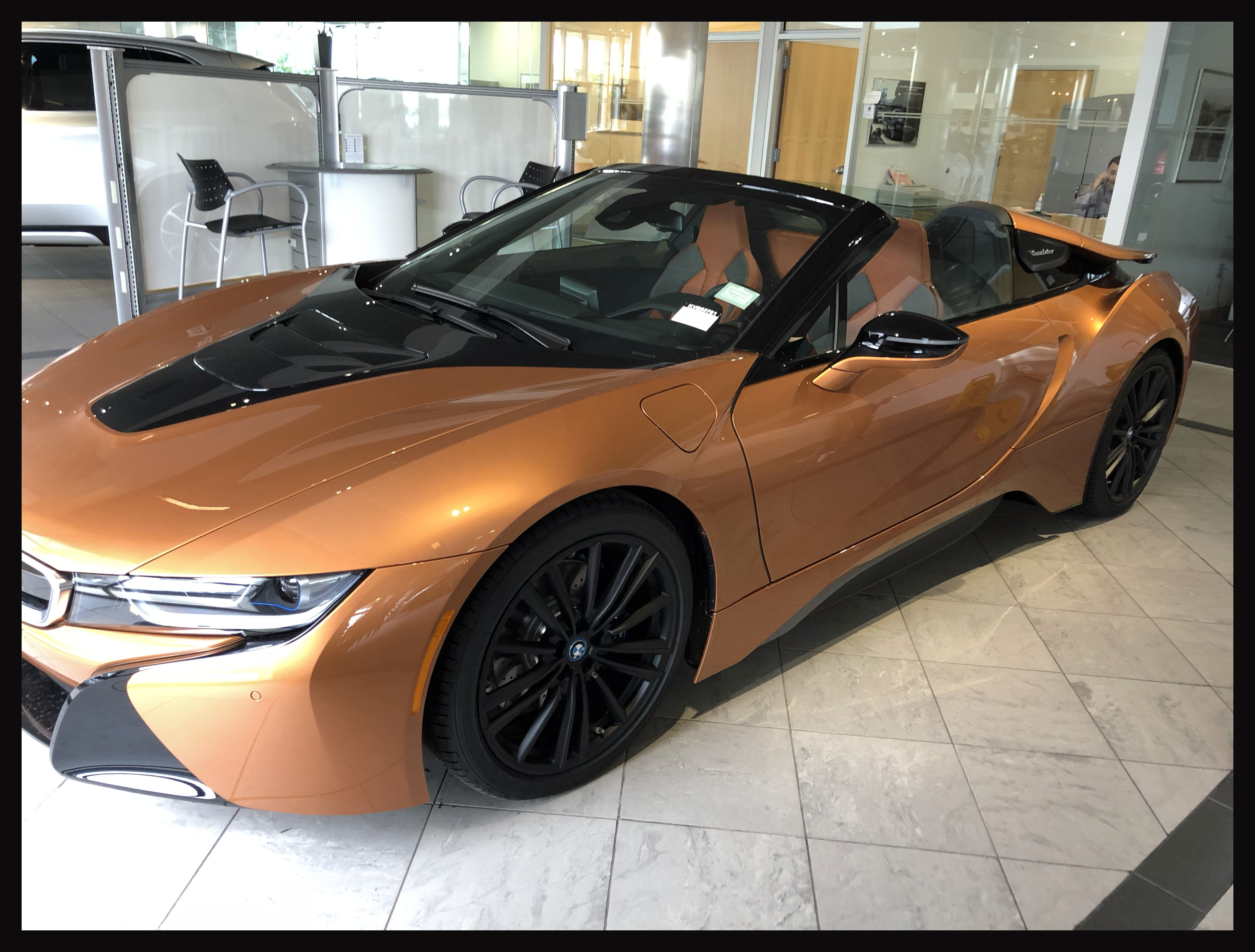 2018 New BMW i8 Roadster E-Copper